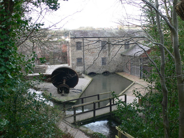 Old Cotton Mill At Greenfield, now part of the Heritage Park. The mill was built in the latter part of the 18th C. and in later reincarnations became a flour mill, premises for lead rolling, a wheelwright and coachbuilders, and a bus garage.